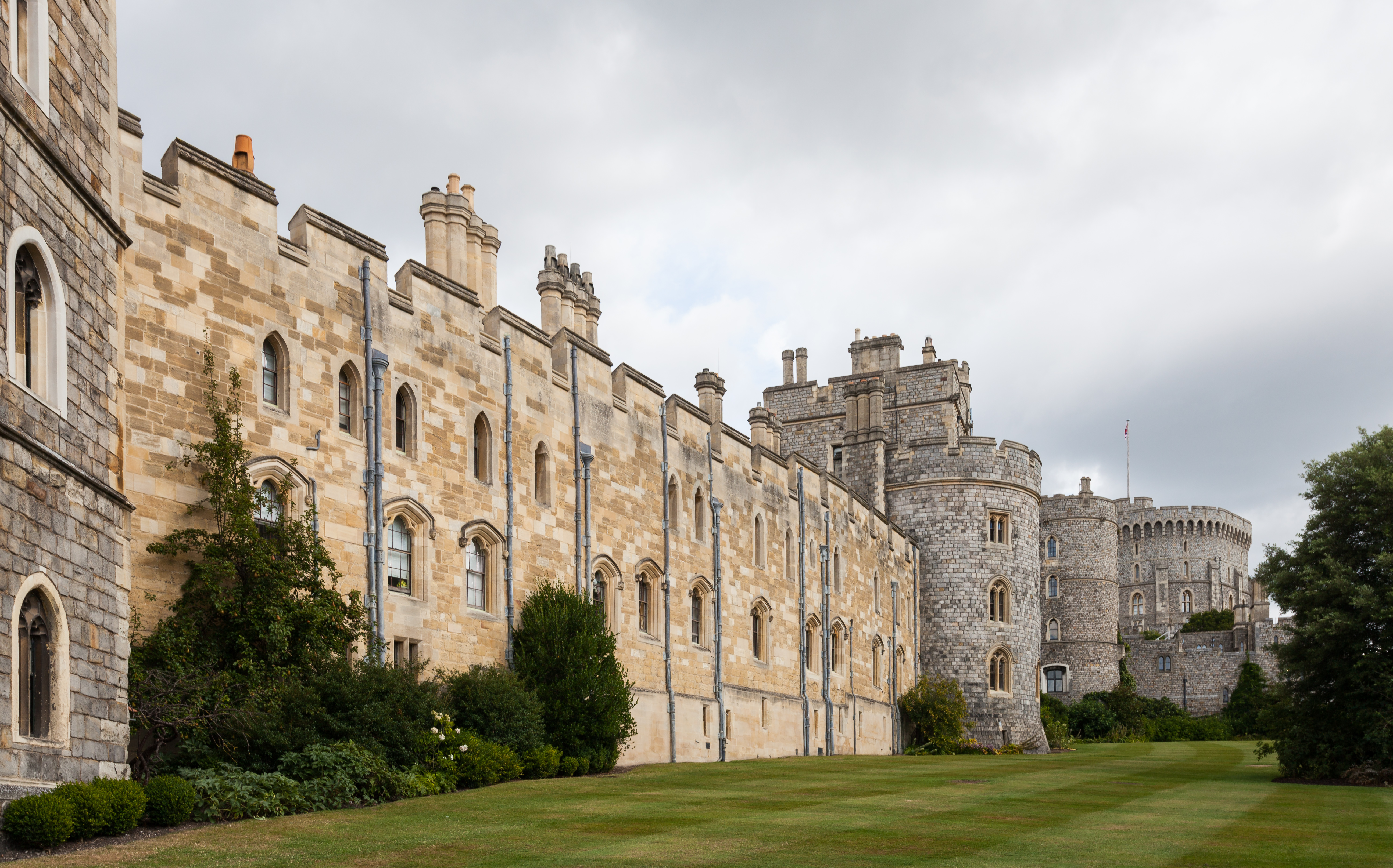 Windsor Castle, Windsor, England